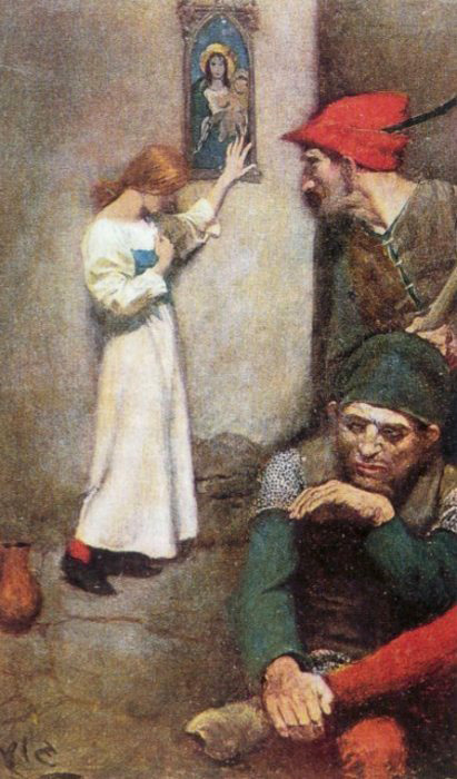 Joan of Arc in Prison